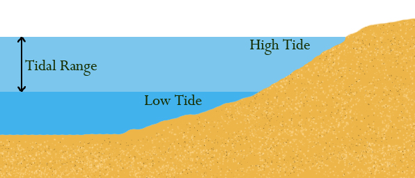 Created with Adobe Photoshop. Displays the concept of tidal range